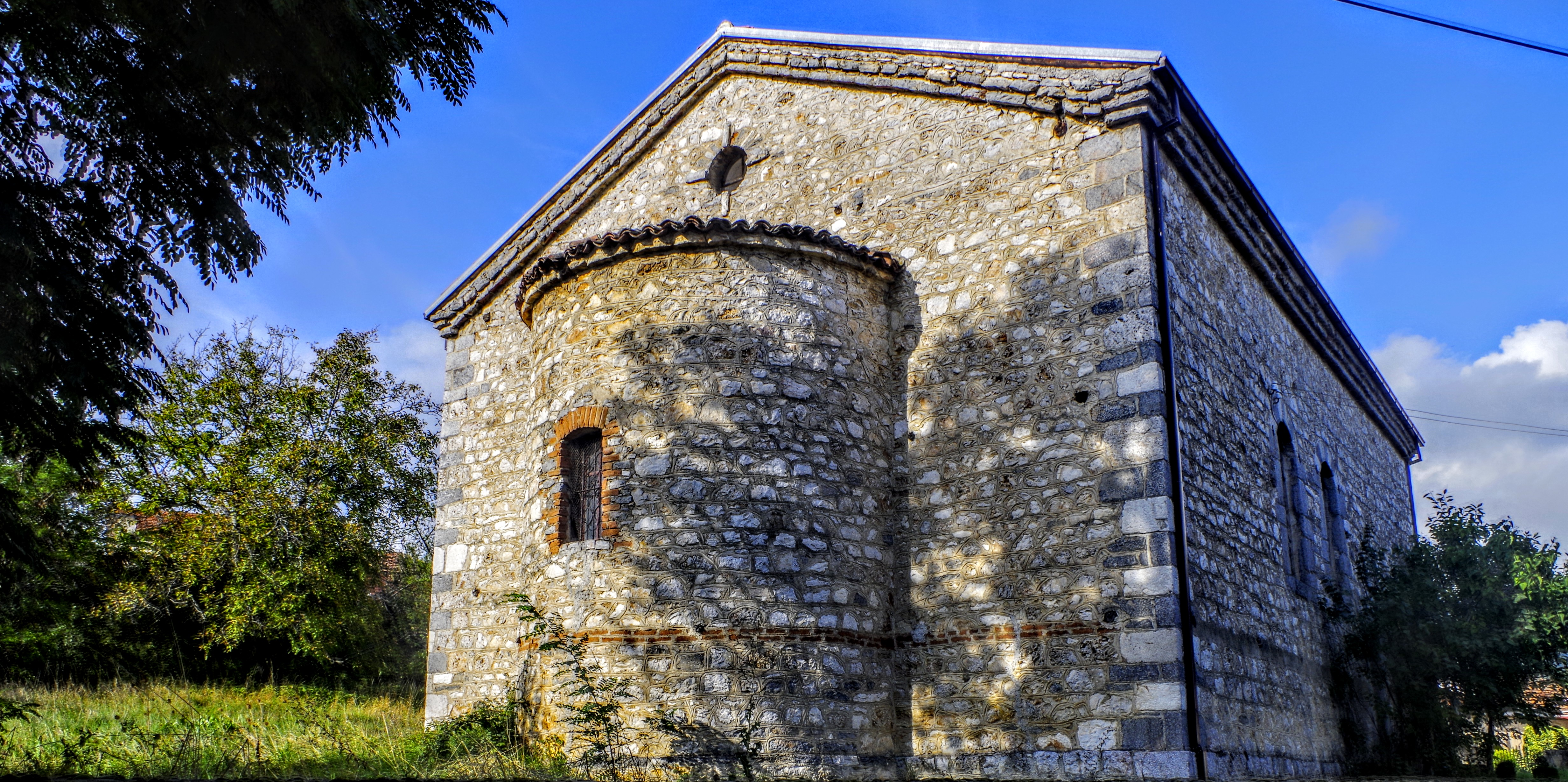 View of the Sts. Cyril and Methodius Church in the village Stenje